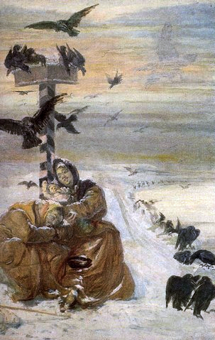 Escape of prisoners - victims of Ravens